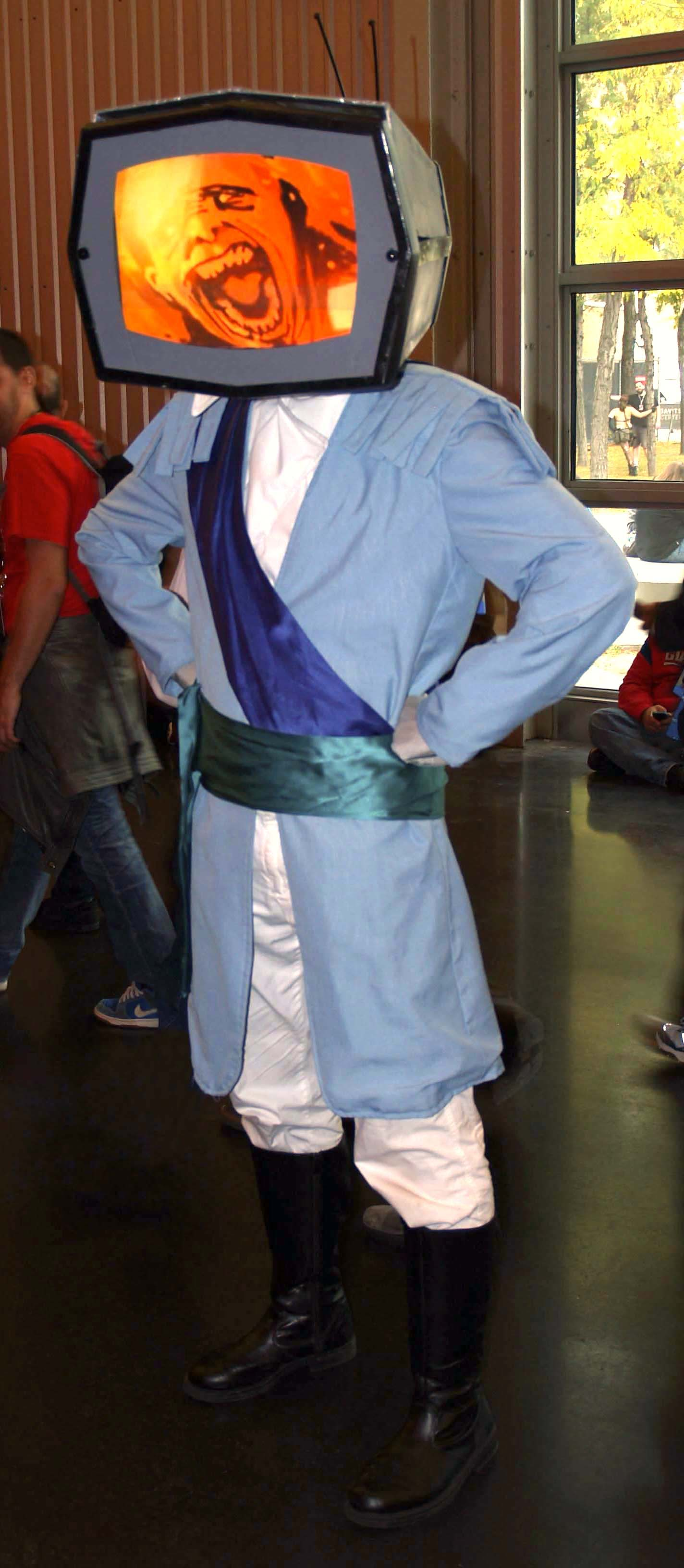 A cosplayer dressed as Prince Robot IV, one of the main antagonists of the comic book series Saga, at the Jacob K. Javits Convention Center in Manhattan, on Friday, October 10, 2014, Day 2 of the 2014 New York Comic Con. The head portion of the costume incorporated a working screen with different flashing images (including some images seen in the comic itself), which mimicked the function of the character's face in the series. This photo was created by Luigi Novi. It is not in the public domain, and use of this file outside of the licensing terms is a copyright violation.